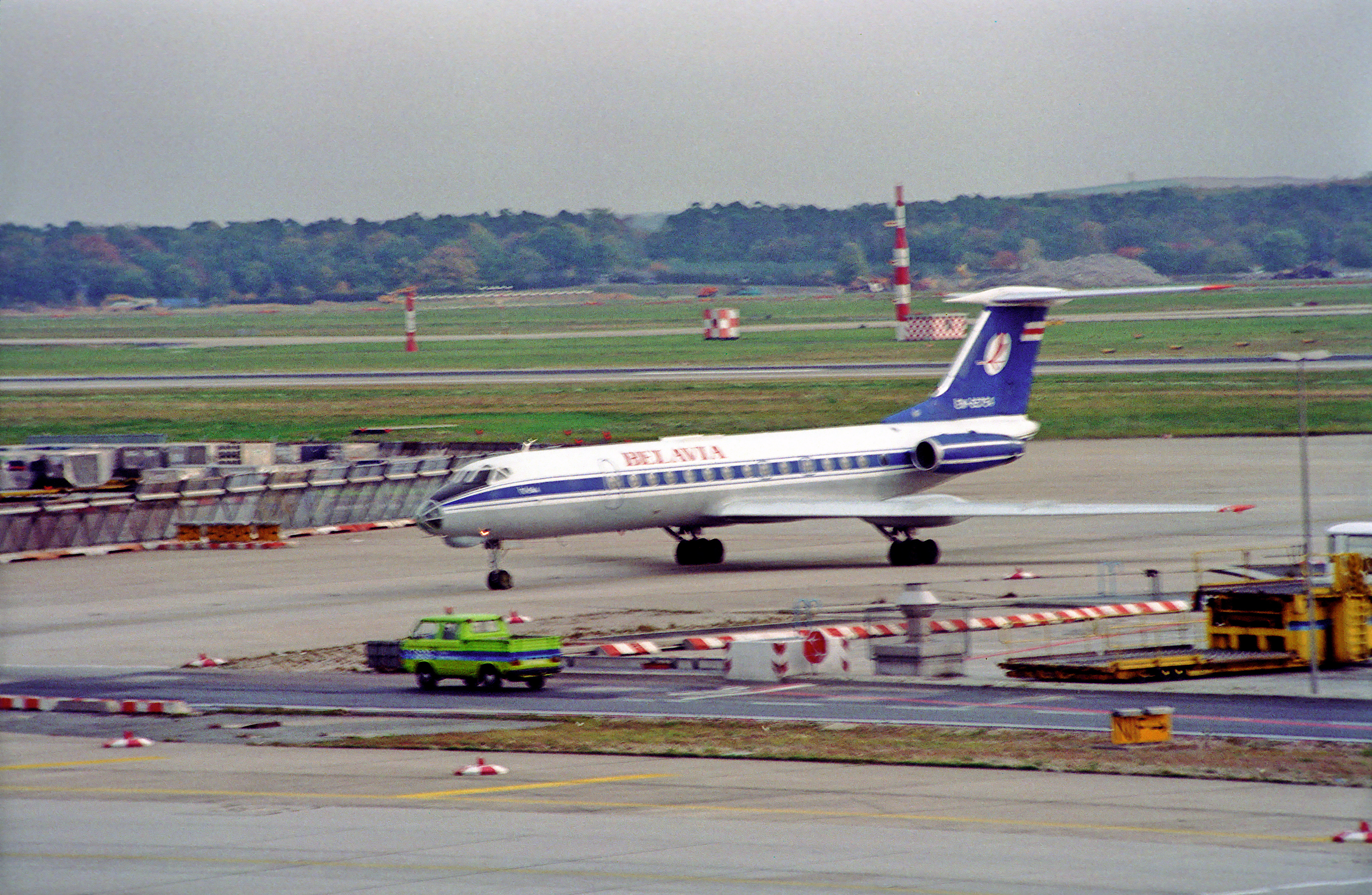 ...unsharp picture, hot subject...